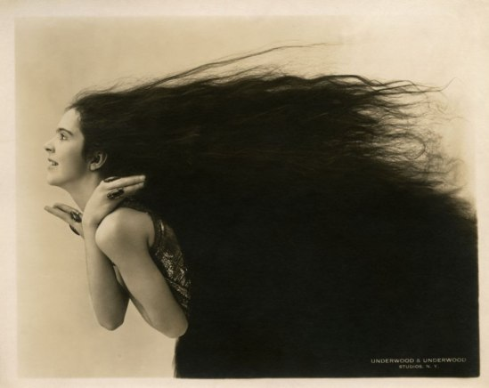 Olive Craddock aka Roshanra by Underwood & Underwood of Kansas c. 1920